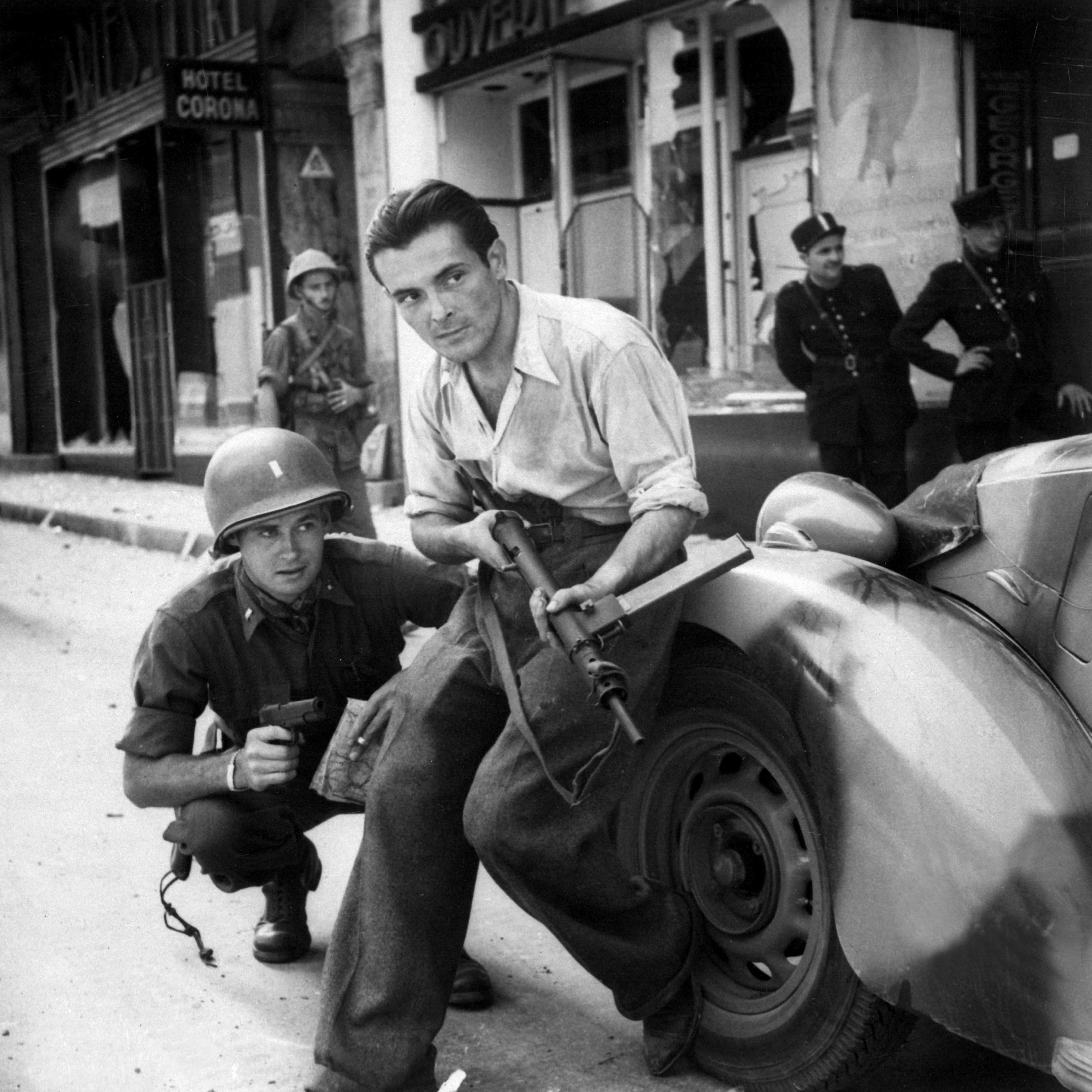 American officer and French partisan crouch behind an auto during a street fight in a French city, ca. 1944. (Army) Exact Date Shot Unknown NARA FILE #: 111-SC-217401 WAR & CONFLICT BOOK #: 1055